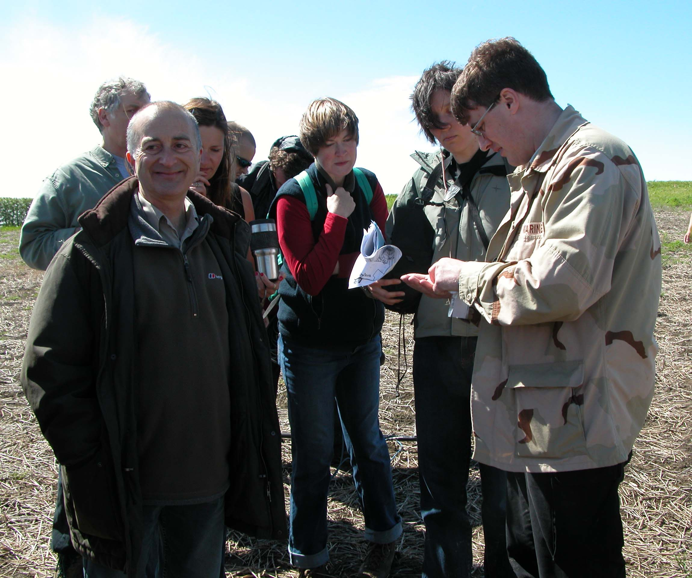 Time Team filming with Andrew Richardson, Kent Finds Liaison Officer, 3 May 2005.